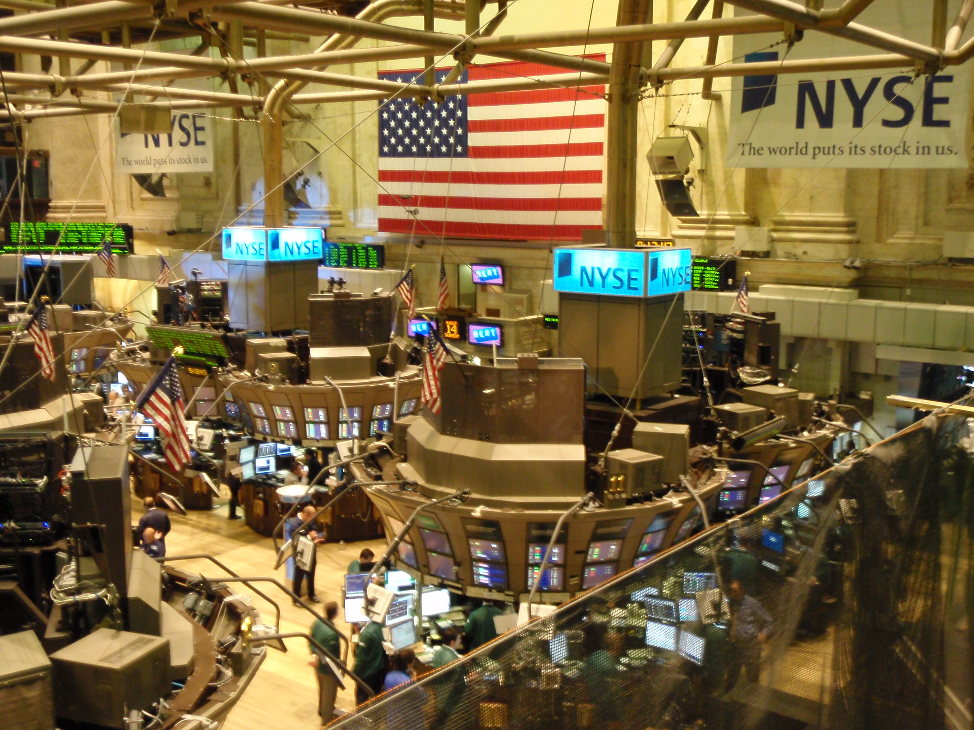 A view from the Member's Gallery inside the New York Stock Exchange